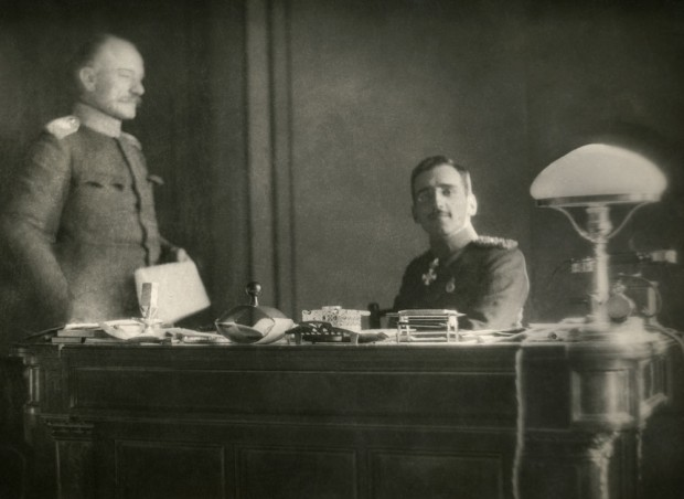 King Alexander I of Yugoslavia and vojvoda Živojin Mišić in 1918